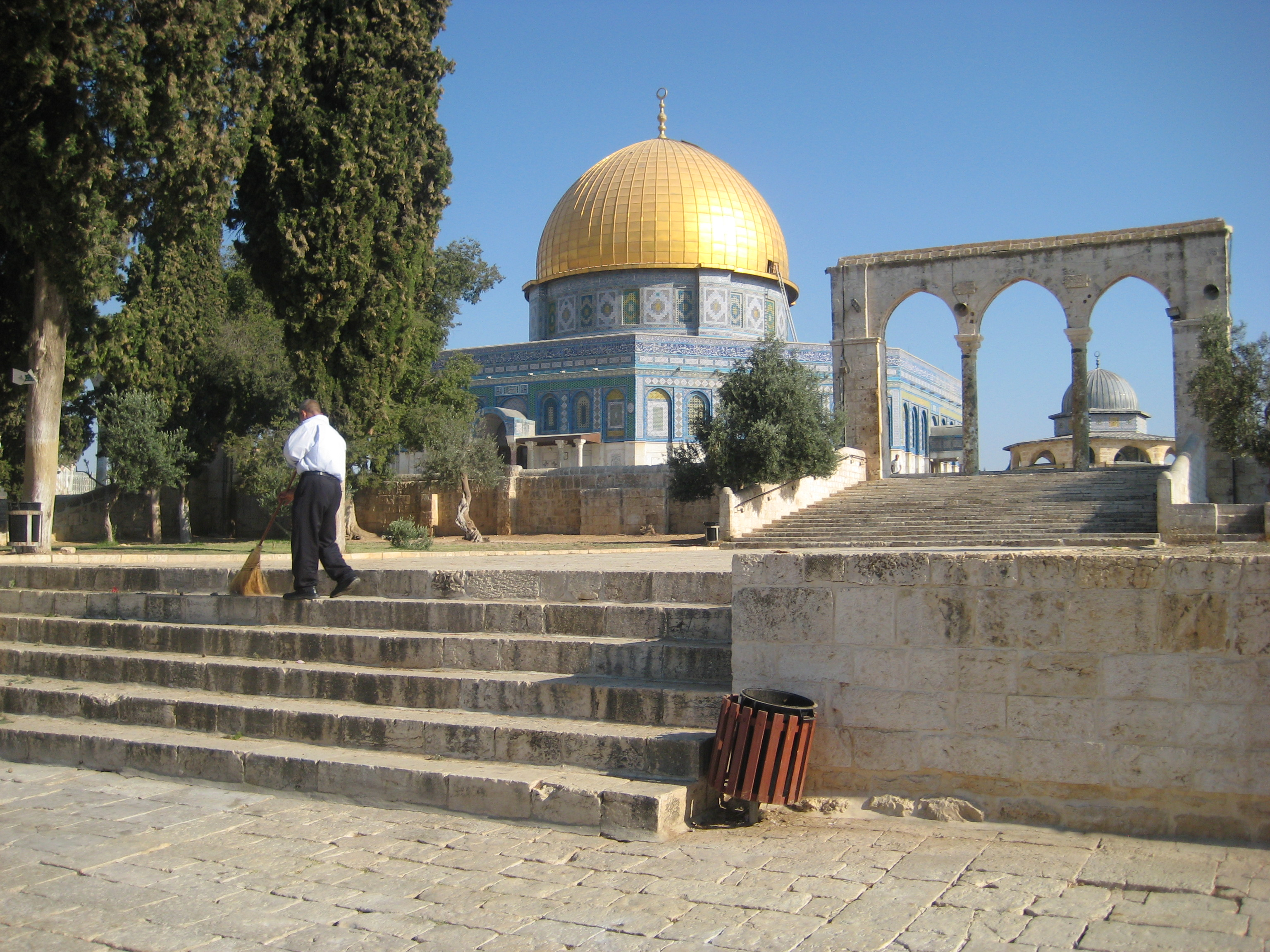 Al-Aqsa Mosque